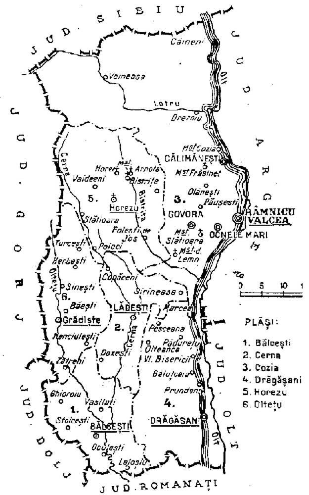 Map of Vâlcea interwar county, Kingdom of Romania (1938).